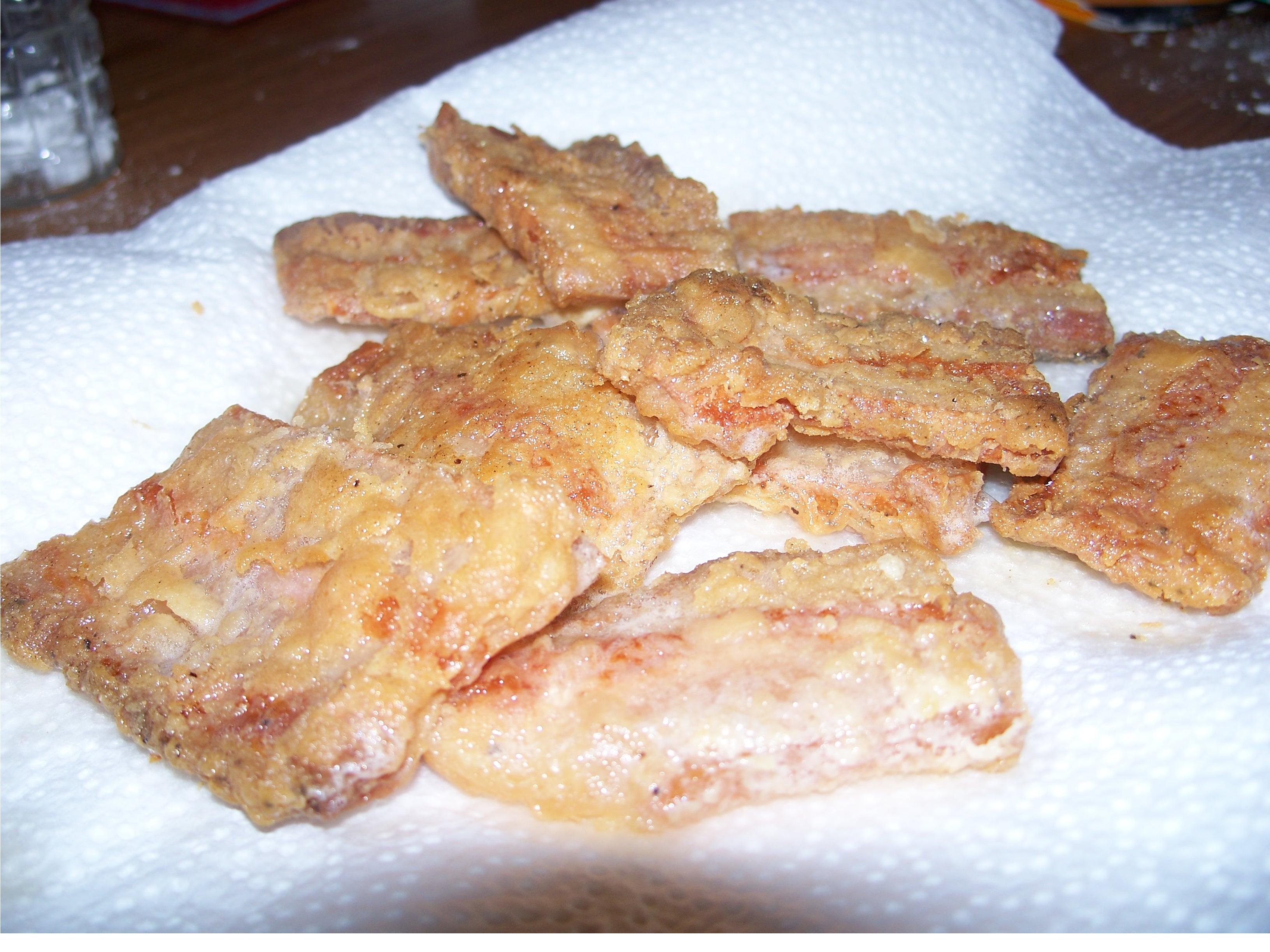 Breaded and fried fatback